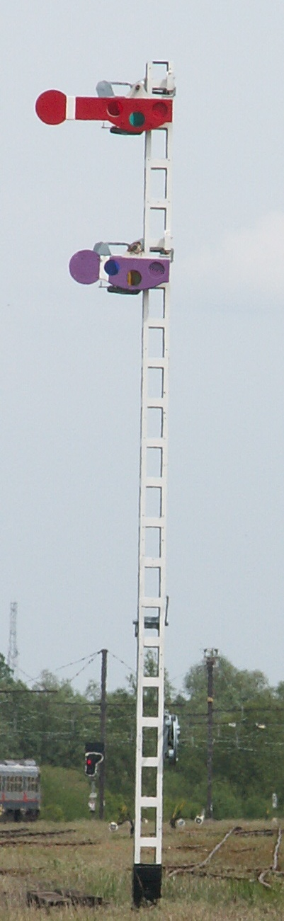 Belgian mechanical train signal (3-positions plates used as 2-postions) as preserved by PFT-TSP in Saint Ghislain